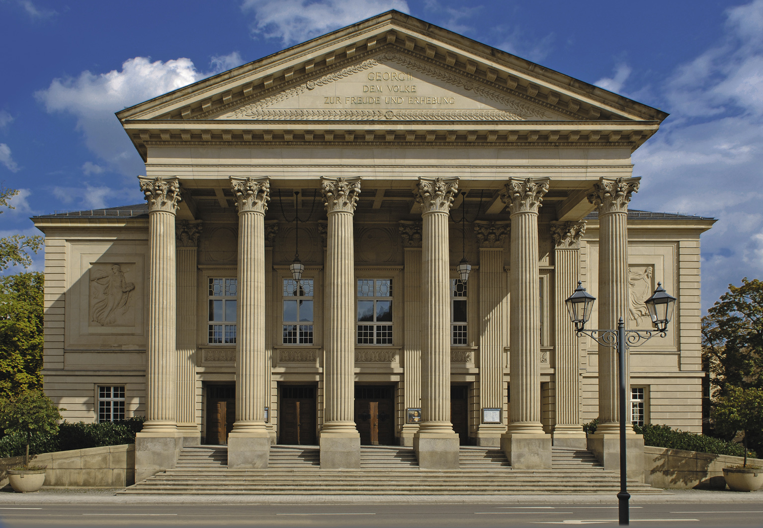 Meiningen Court Theatre - Front